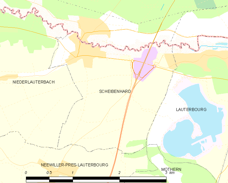 Map of French municipality